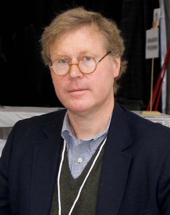 Cullen Murphy at the 2007 Texas Book Festival, Austin, Texas, United States.